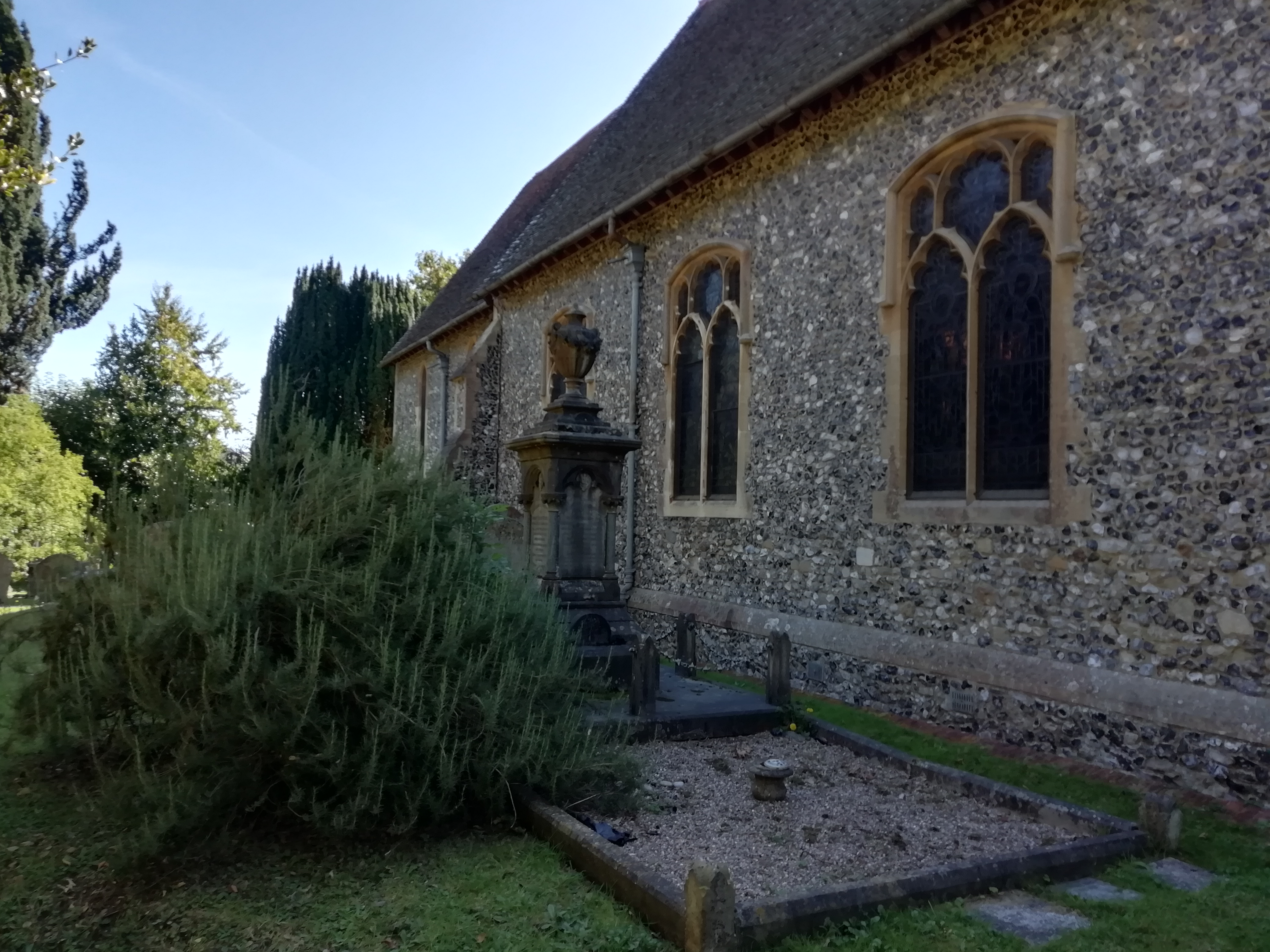 The north-facing wall of St. Michael and All Angels, Harbledown - the main entrance is immediately to the right of the photo.